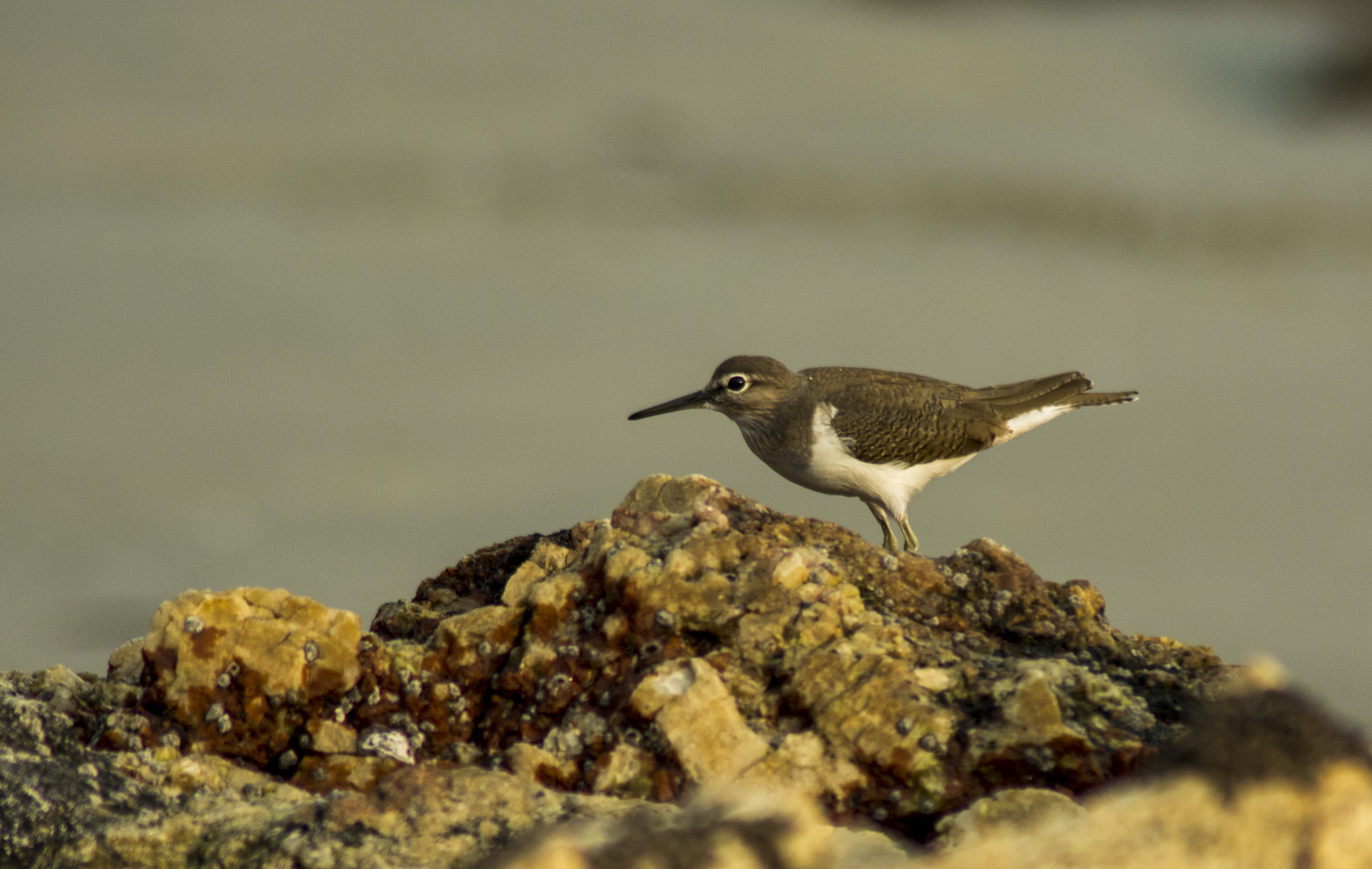 common sandpiper at muzhappilangad beach